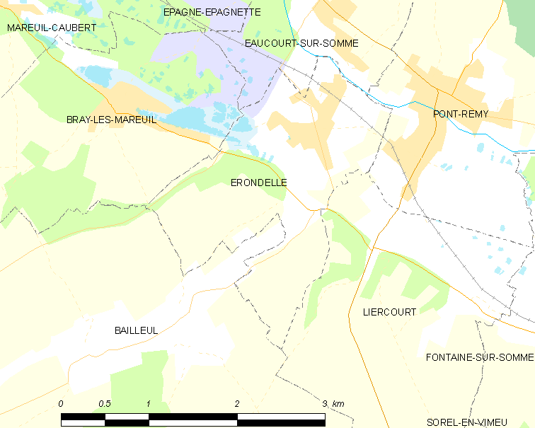 Map of French municipality Érondelle